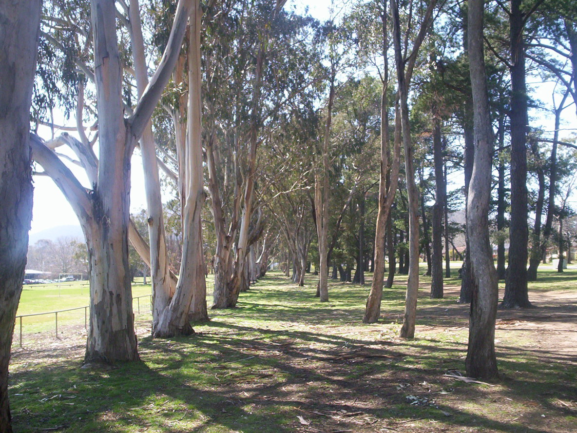 Hackett oval canberra ACT. I took the photo.